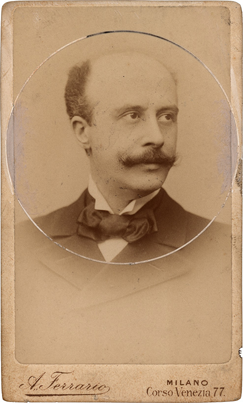 Portrait of Pietro Floridia, composer (1860-1932). Photo by Achille Ferrario, Milano, before 1932.